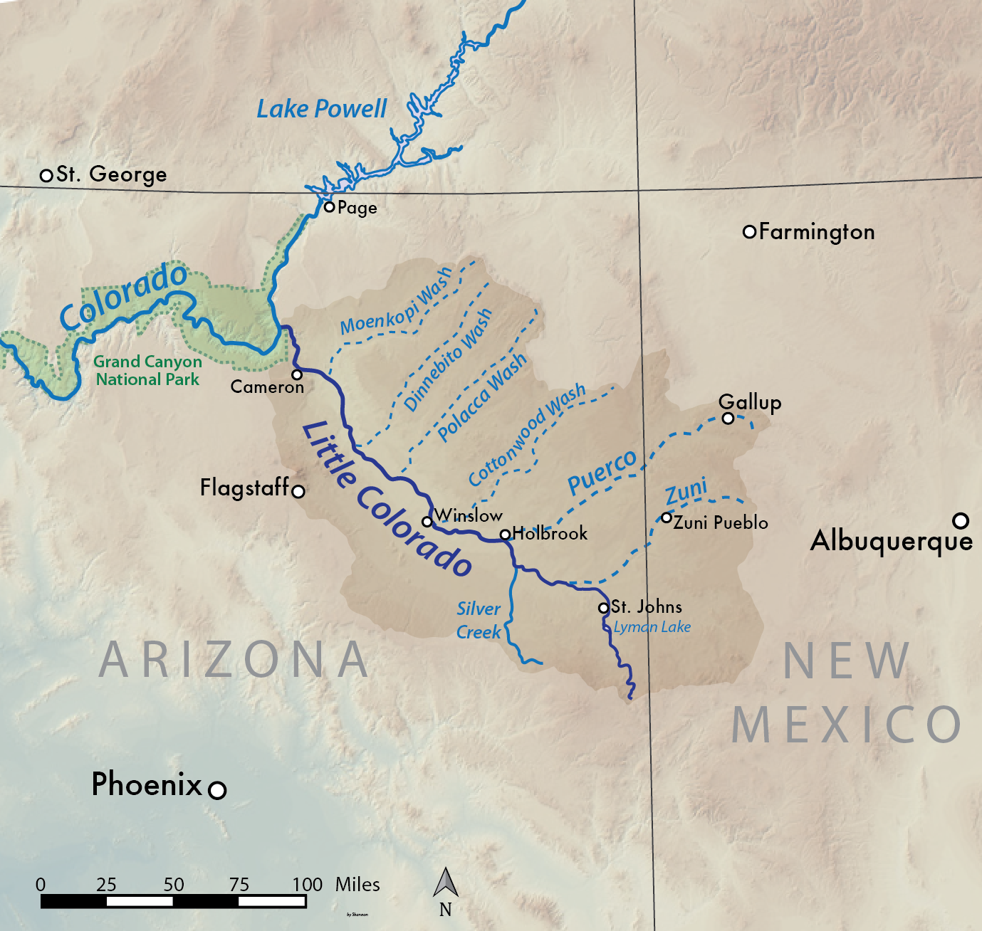 Map of the Little Colorado River basin in Arizona and New Mexico, USA. Made using USGS shaded relief data.